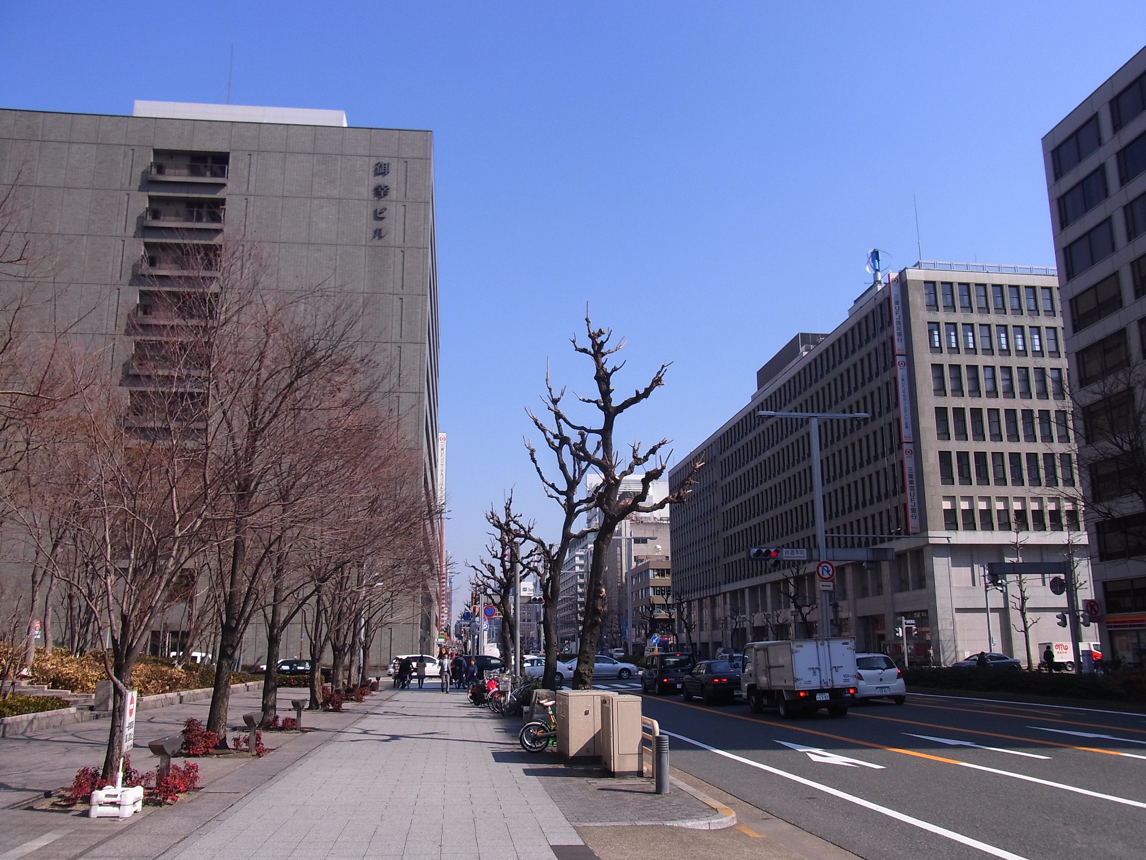 Nishiki-dori Street in Nishiki 2-chome, Naka-ku, Nagoya City.